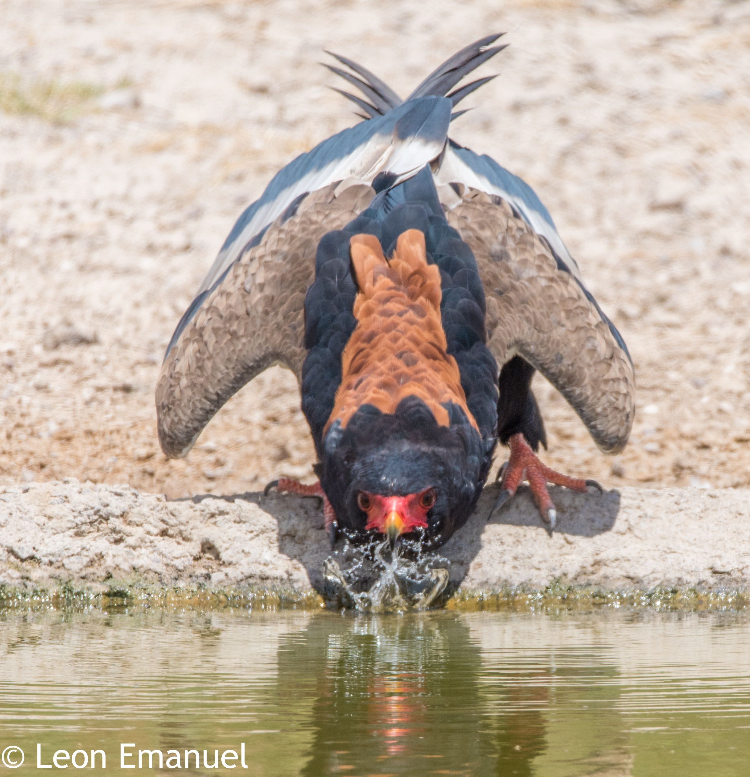 Bateleur